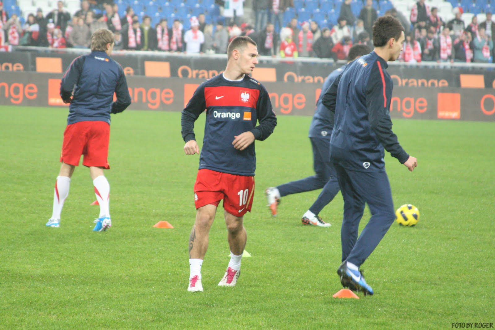 Ludovic Obraniak, polish football player, on training.